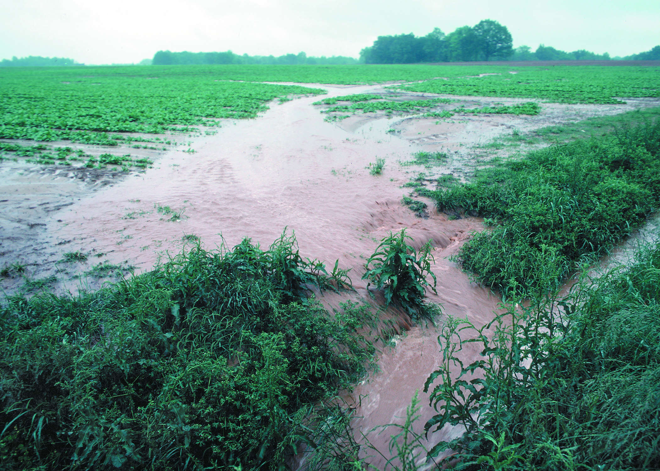 Sediment laden runoff floods drainage ditches following a brief storm in Tennessee.